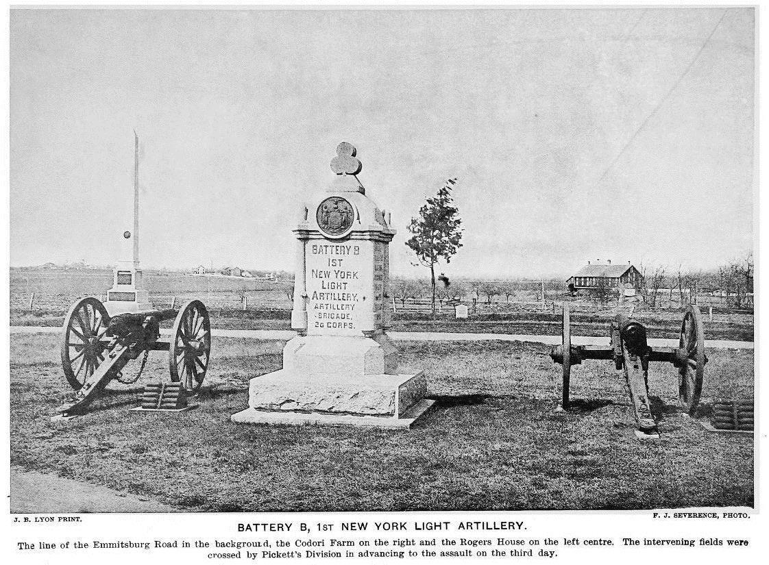 Battery B, New York Artillery Monument, Gettysburg Battlefield. New York Monuments Commission, Final Report on the Battlefield of Gettysburg, Volume 3 (Albany, NY: J. B. Lyons Company, 1902), opp. p. 1177.[1]